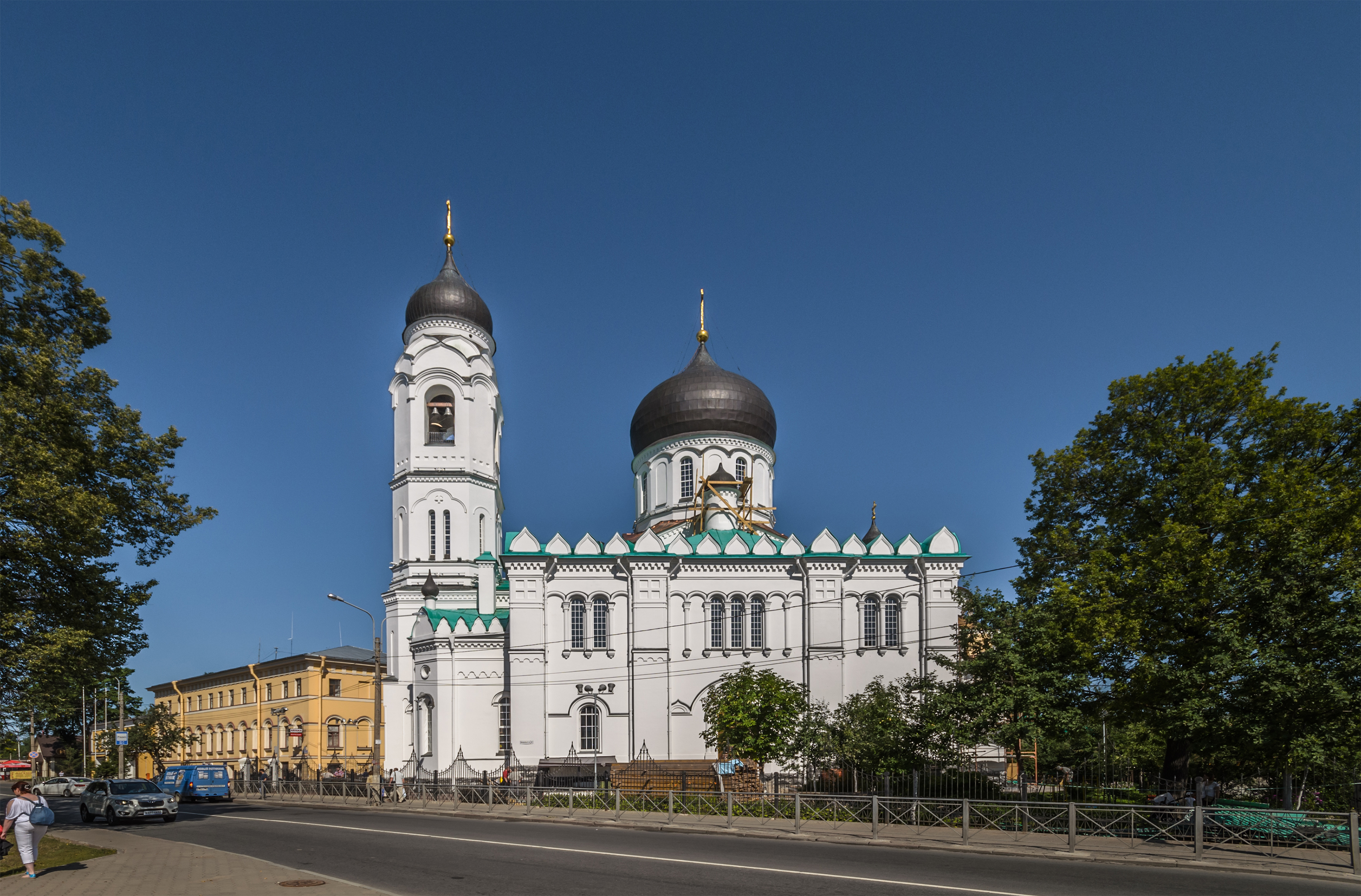 Archangel Michael Cathedral in Lomonosov town